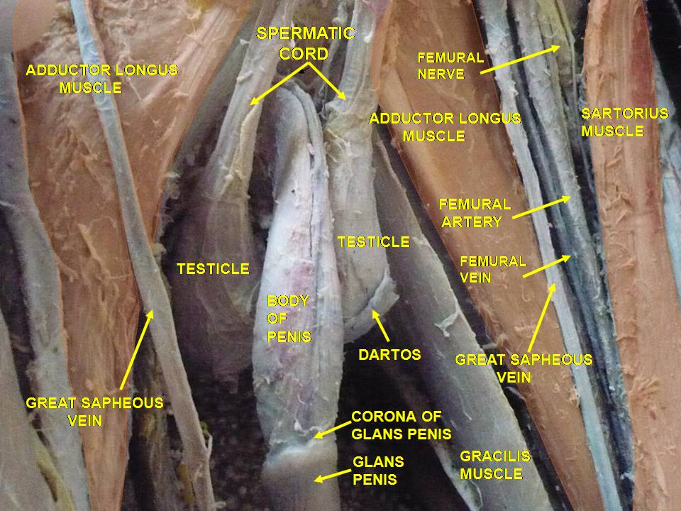 Anatomical dissections